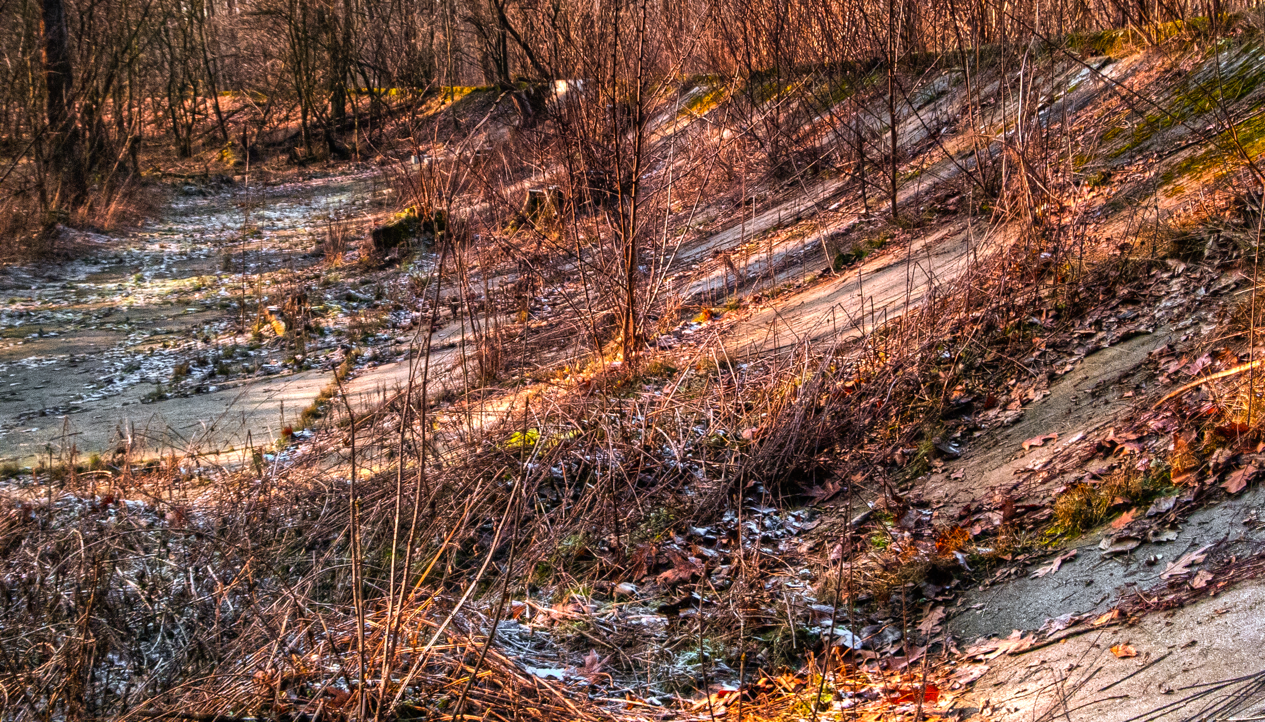 Remains of the Opel Rennbahn south of Rüsselsheim, Germany